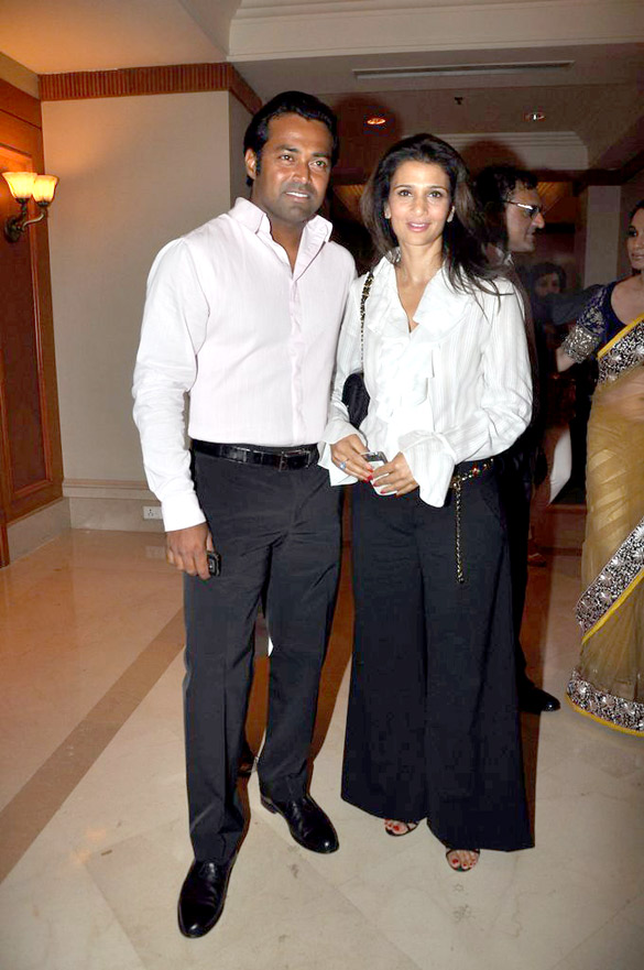 Leander Paes and Rhea Pillai at Manish Malhotra - Lilavati Save & Empower Girl Child show.